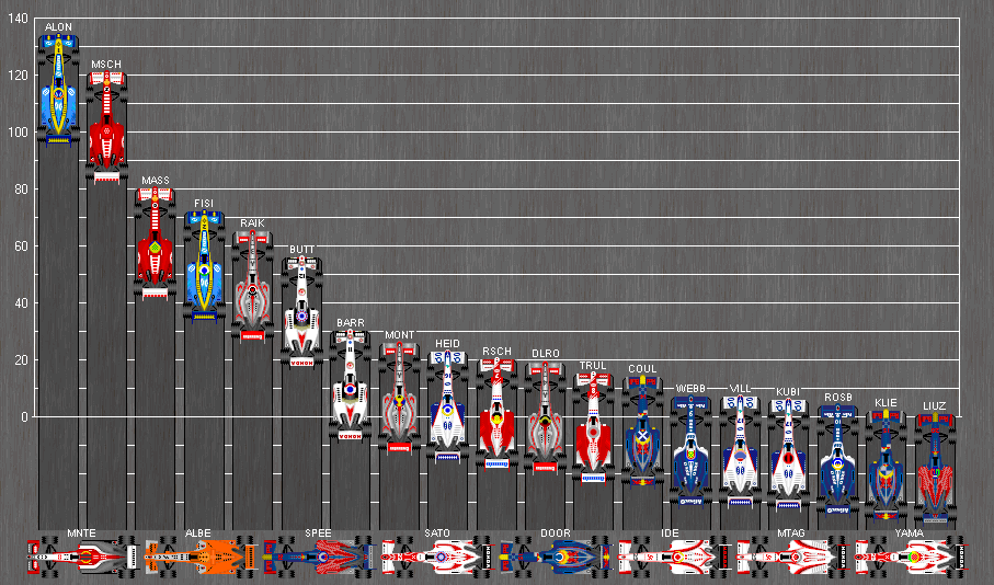 chart of final standings of 2008 Formula One season